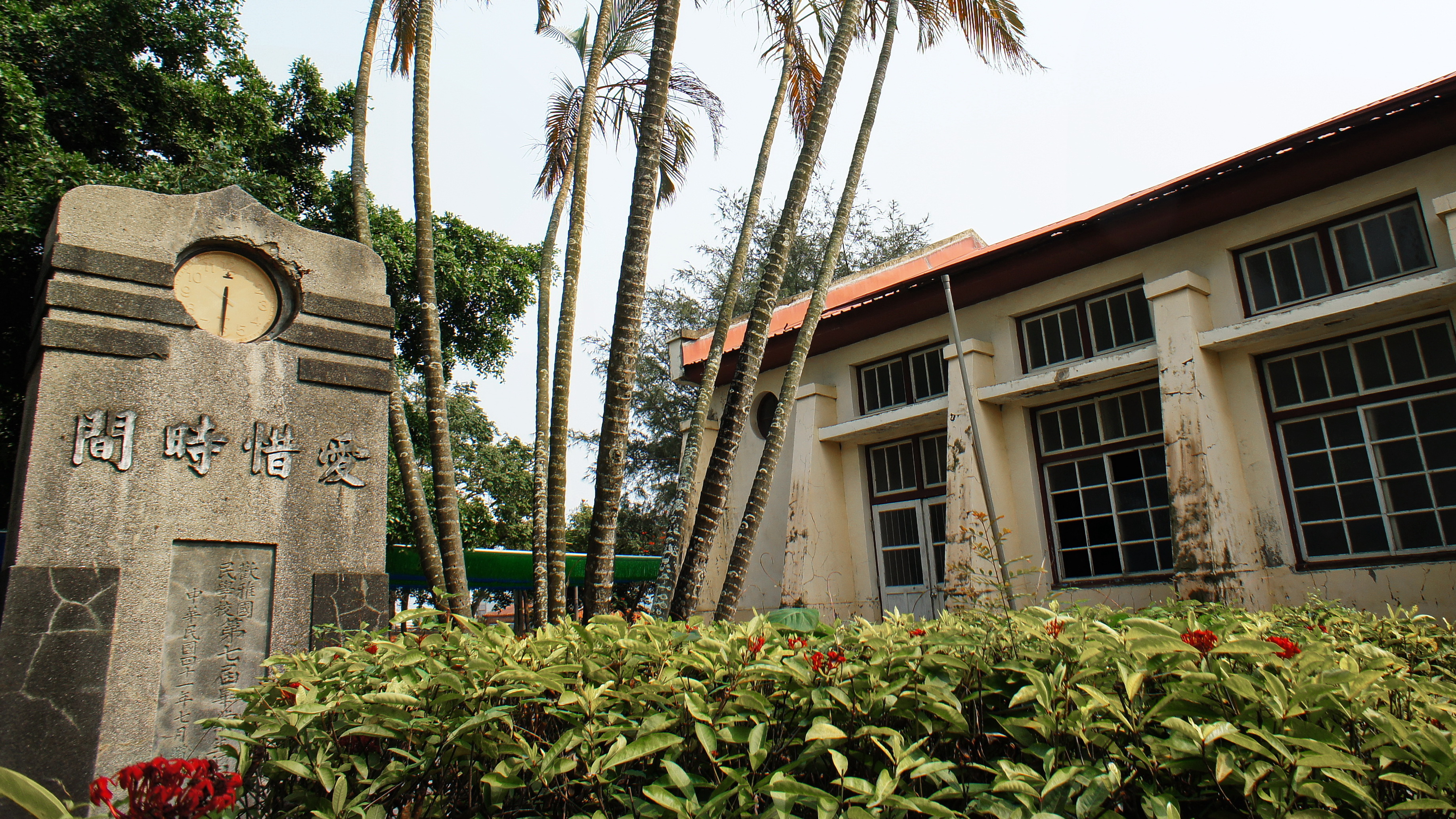 Former Auditorium and Floor Clock of the Tainan City Huan-Ya Elementary School, Yanshui District, Tainan City, Taiwan.